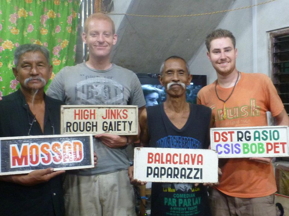 Tourists with The Moustache Brothers 2012